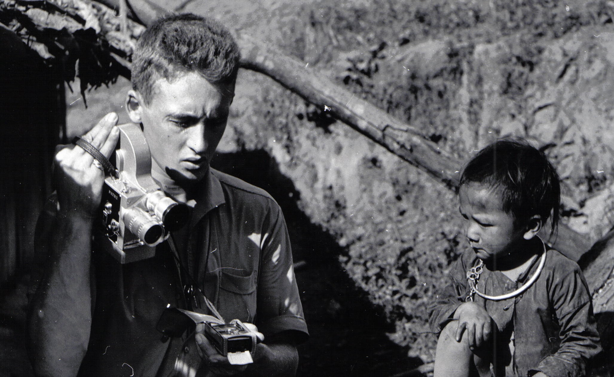 Louis Panassié in Thailand.